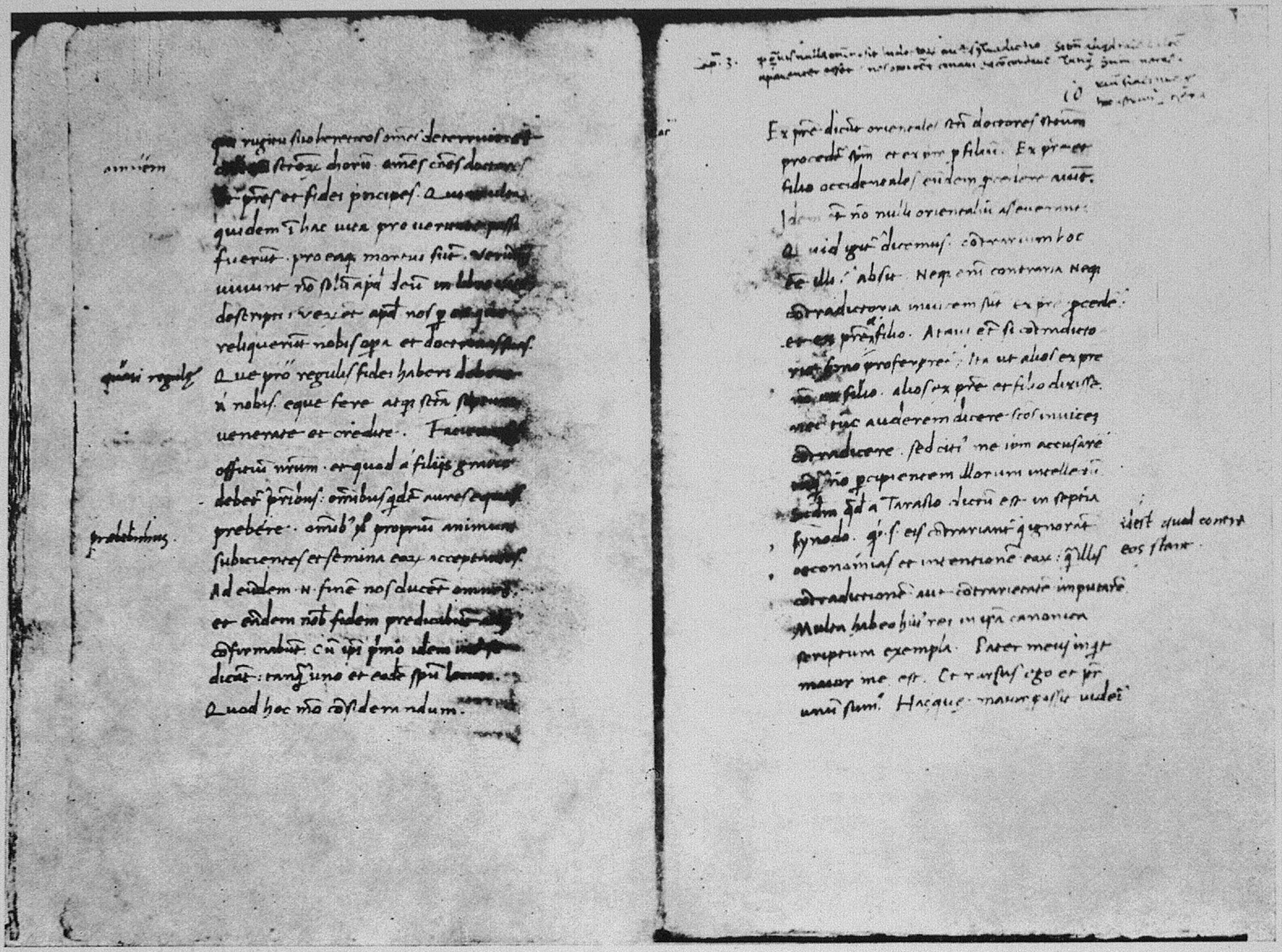 Two pages of the Latin version of Cardinal Bessarion’s speech Oratio dogmatica de unione at the Council of Florence in the manuscript Venice, Biblioteca Nazionale Marciana, Lat. Z. 136 (= 1901), fol. 9v and 10r (autograph).